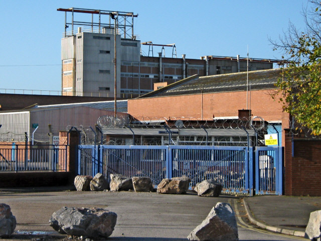 Innovia factory - closed for business Former cellophane factory, bought by an American rival and closed soon after (in 2005)